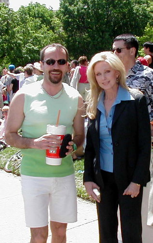 Television and film star Morgan Fairchild, a native of Dallas, TX, at a public appearance in Dallas in April 2006. She participated in the annual Easter in the Park event. The event, at Lee Park in the Oak Lawn neighborhood of Dallas, includes a free performance of the Dallas Symphony Orchestra, and an annual dog and Easter bonnet contest.